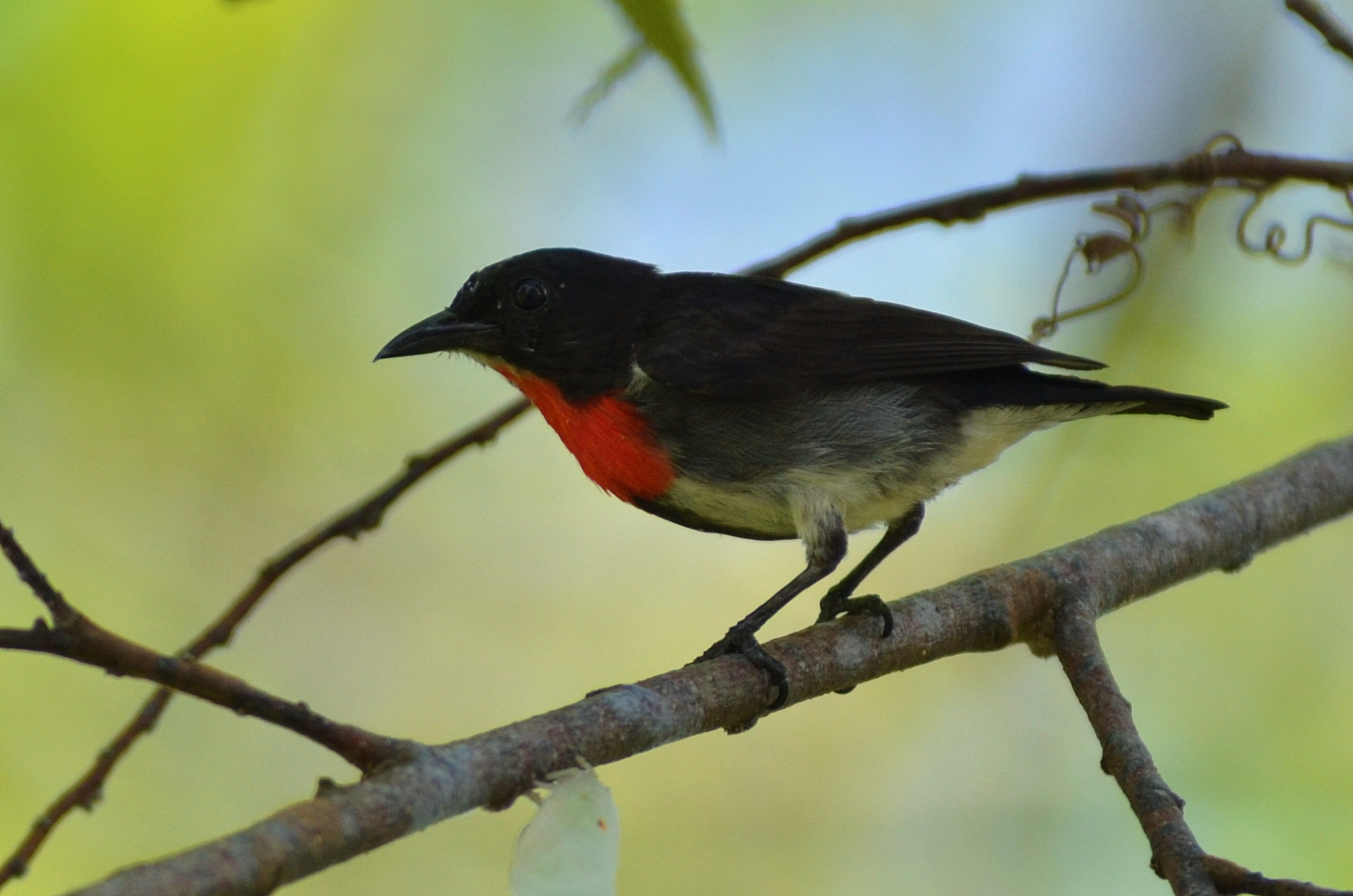 Male of Grey-sided Flowerpecker (Dicaeum celebicum celebicum) at Manado, North SulawesiBahasa Indonesia: Pejantan cabai panggul-kelabu (Dicaeum celebicum celebicum) di Manado, Sulawesi Utara